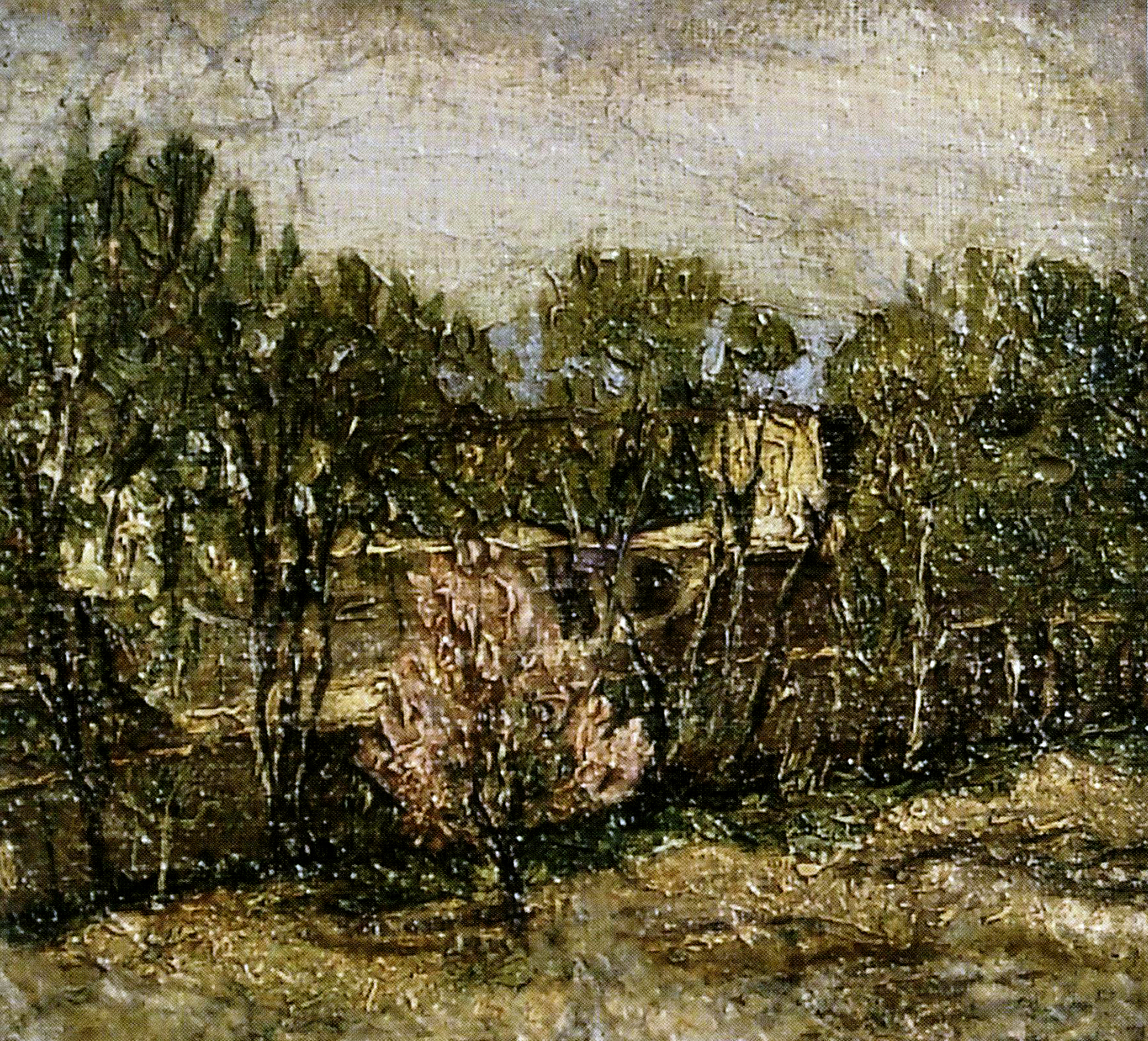 Landscape